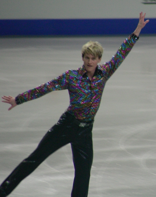 Kristoffer Berntsson on the 2007 European Figure Skating Championships in Warsaw - free skate